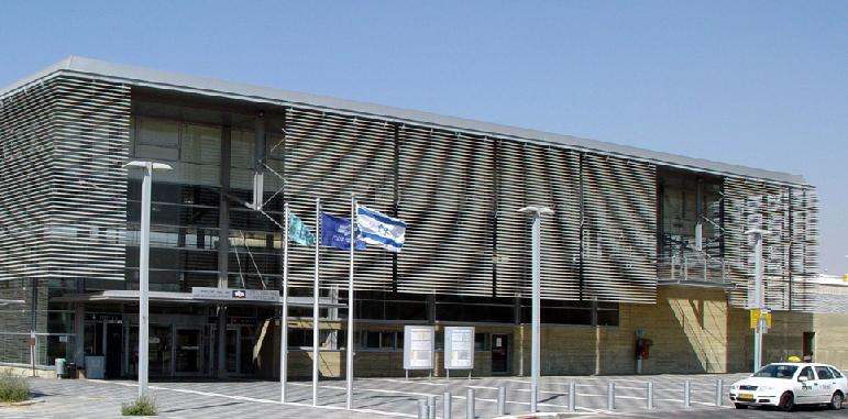 Beer Sheva University Station